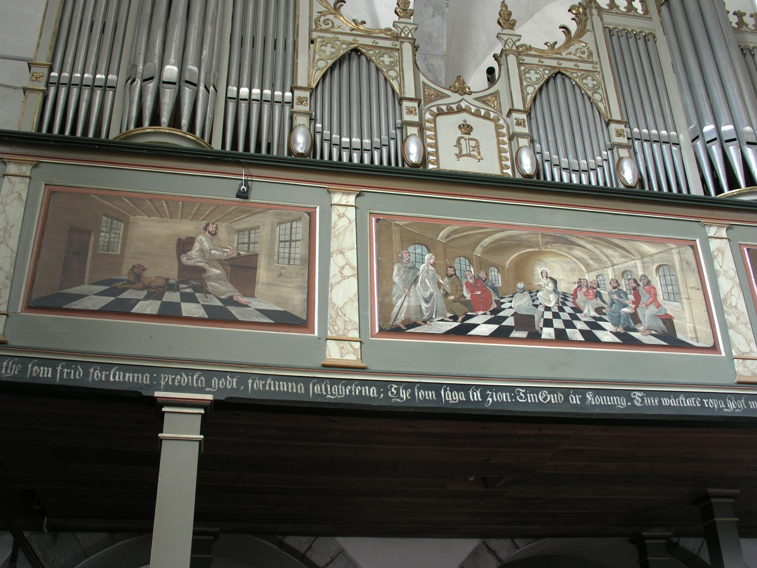 Othem kyrka / Othem church, Gotland, Sweden. Balcony painting.